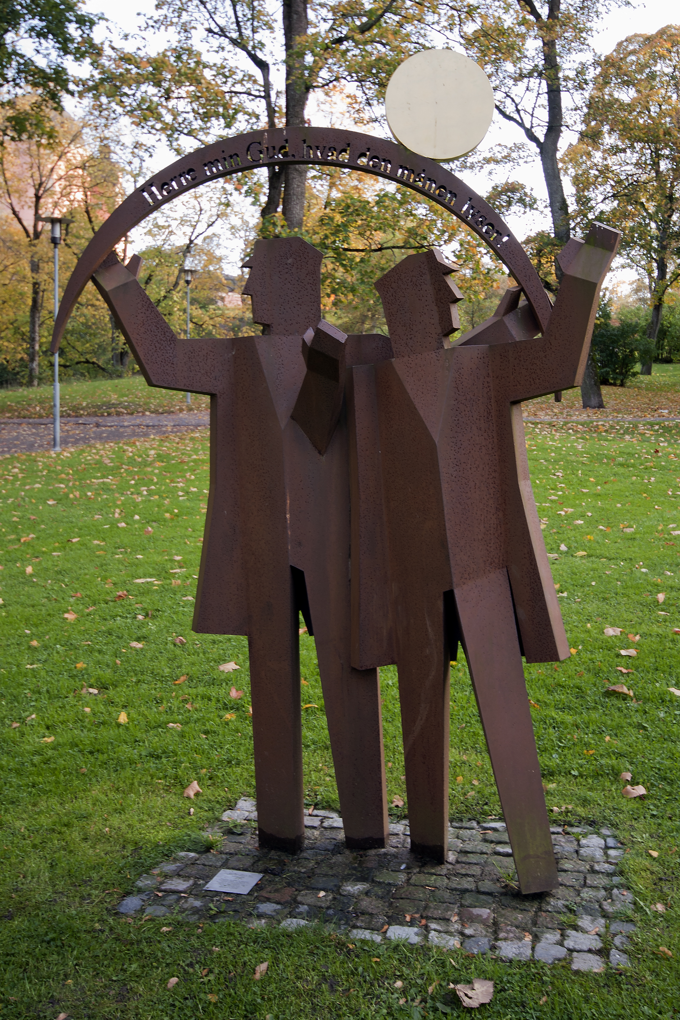 Sculpture by Thomas Qvarsebo.